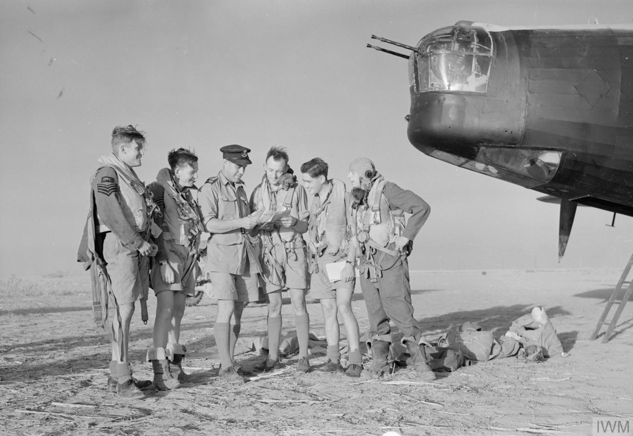 The crew of a Vickers Wellington Mark X of No. 150 Squadron RAF receive a final briefing from their flight commander before taking off from Kairouan, Tunisia, for a raid on targets in the Salerno area on the day before the Allied landings there, (Operation AVALANCHE). Pictured are, (left to right): Sergeant J Umbers of Coulsdon, Surrey, (wireless operator/air gunner) Sergeant J Baxter of Ayrshire, Scotland, (bombardier) Squadron Leader E Le P Langlois of Clarence Park, South Australia, (Commander, 'A' Flight) Flight Sergeant S S M Tunstall of Boonah, Queensland, Australia, (pilot) Sergeant F Doyle of Crosby, Liverpool, (navigator) Sergeant M Hayes of Lismore, Eire, (rear gunner)